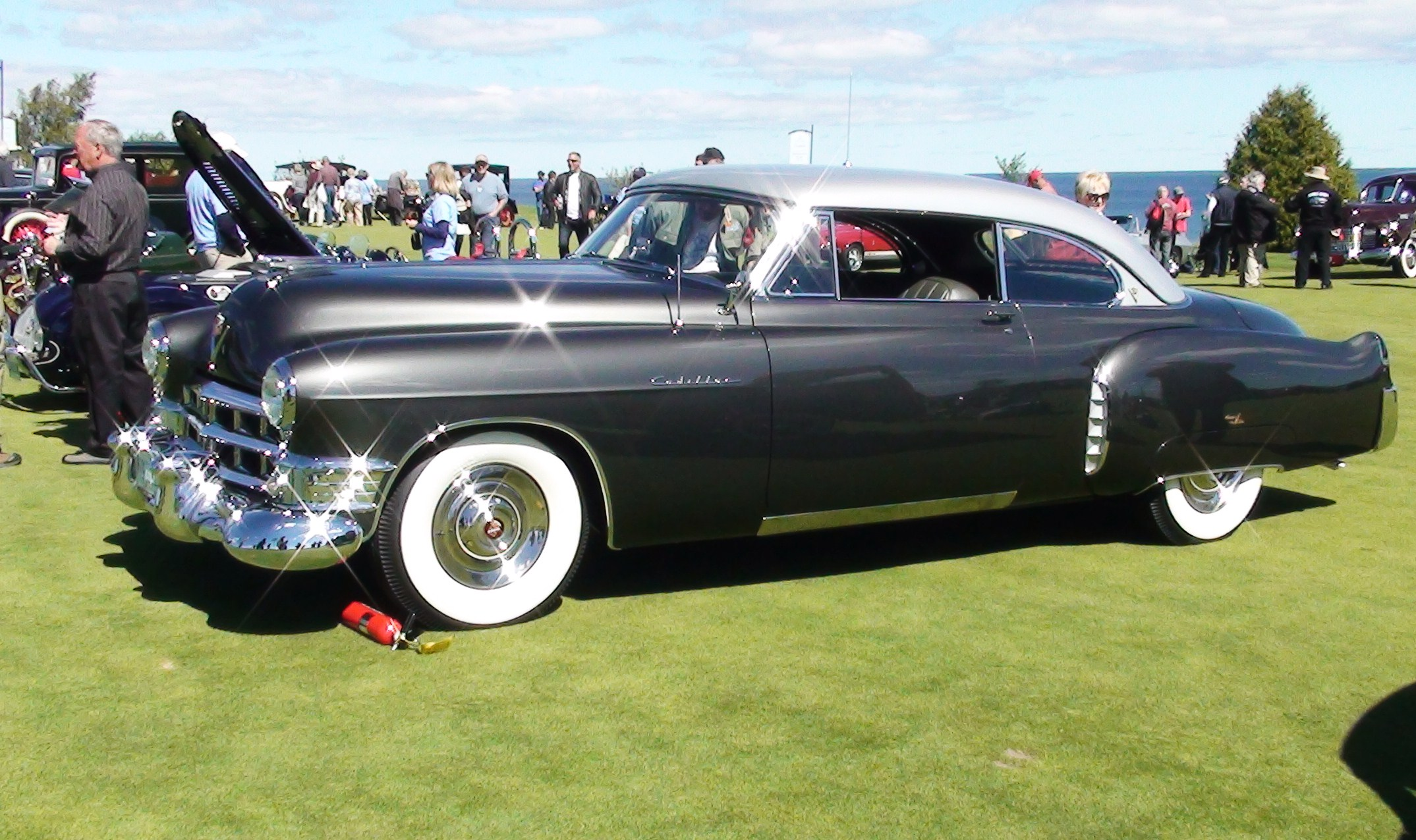 1949 Cadillac Coupé de Ville prototype specially built for GM Motorama 1949